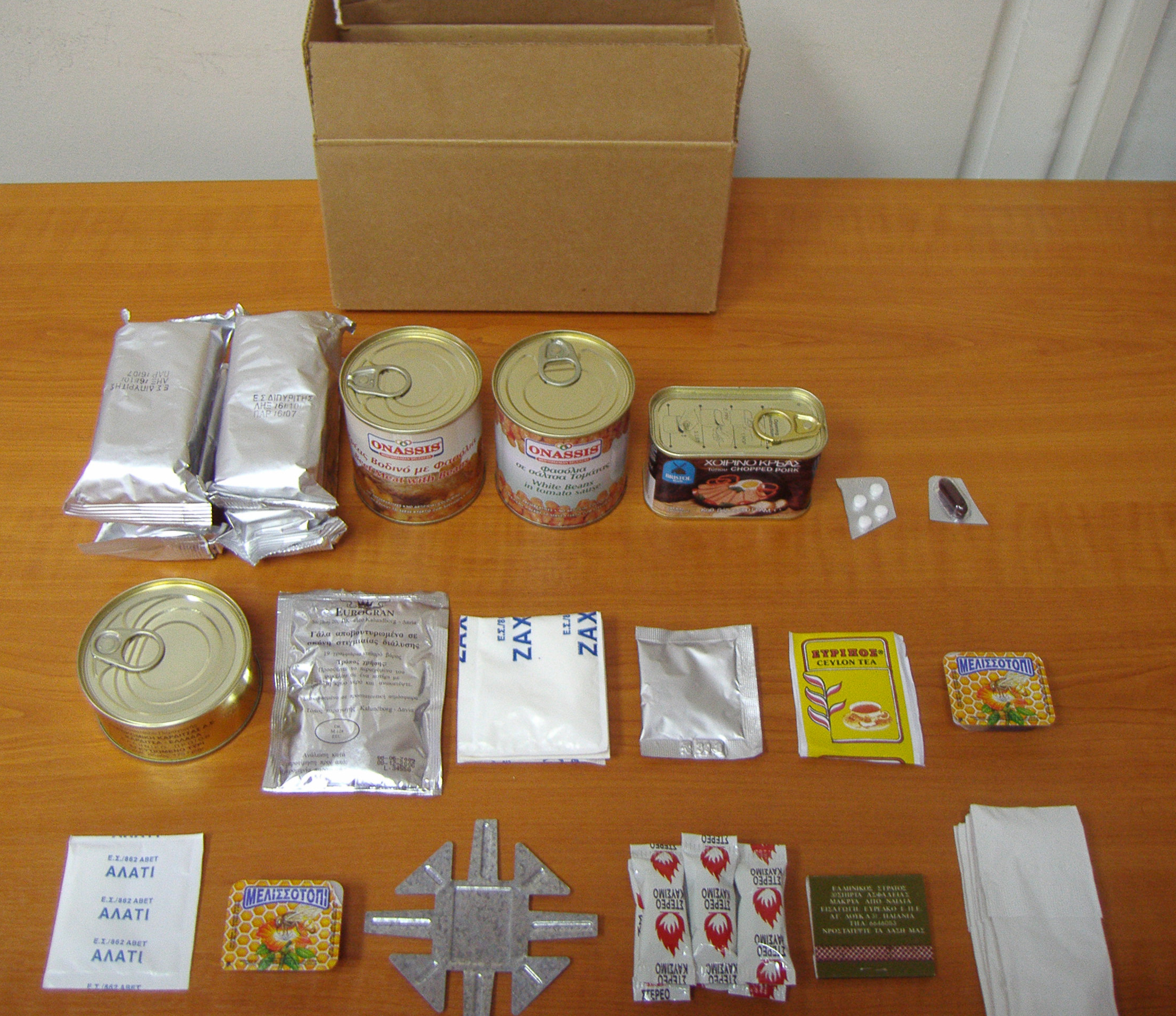 MRE Pack